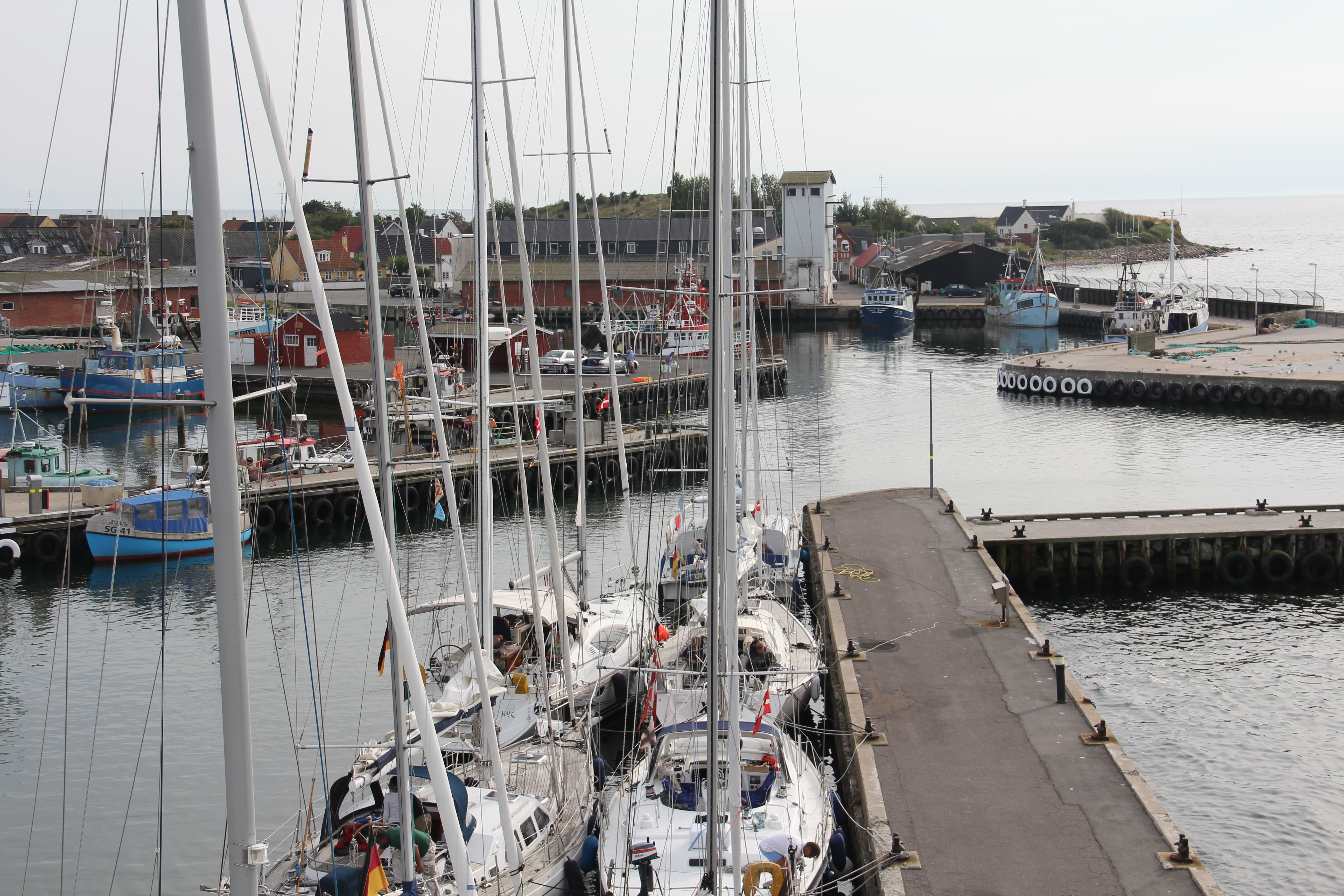 Bagenkop Marina